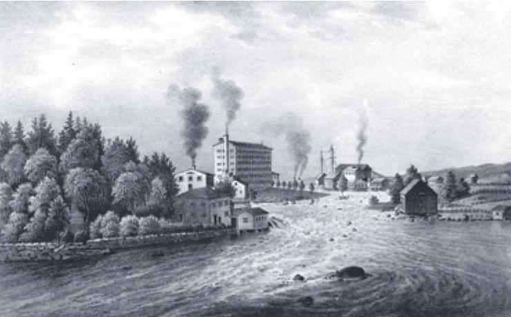 Litography of Tammerkoski, Tampere, Finland towards the north. The large building by the rapids is Kuusivooninkinen, the main industrial building of the Finlayson cotton mill.